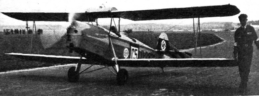 Gerner II at the Deutschland Flug 1933